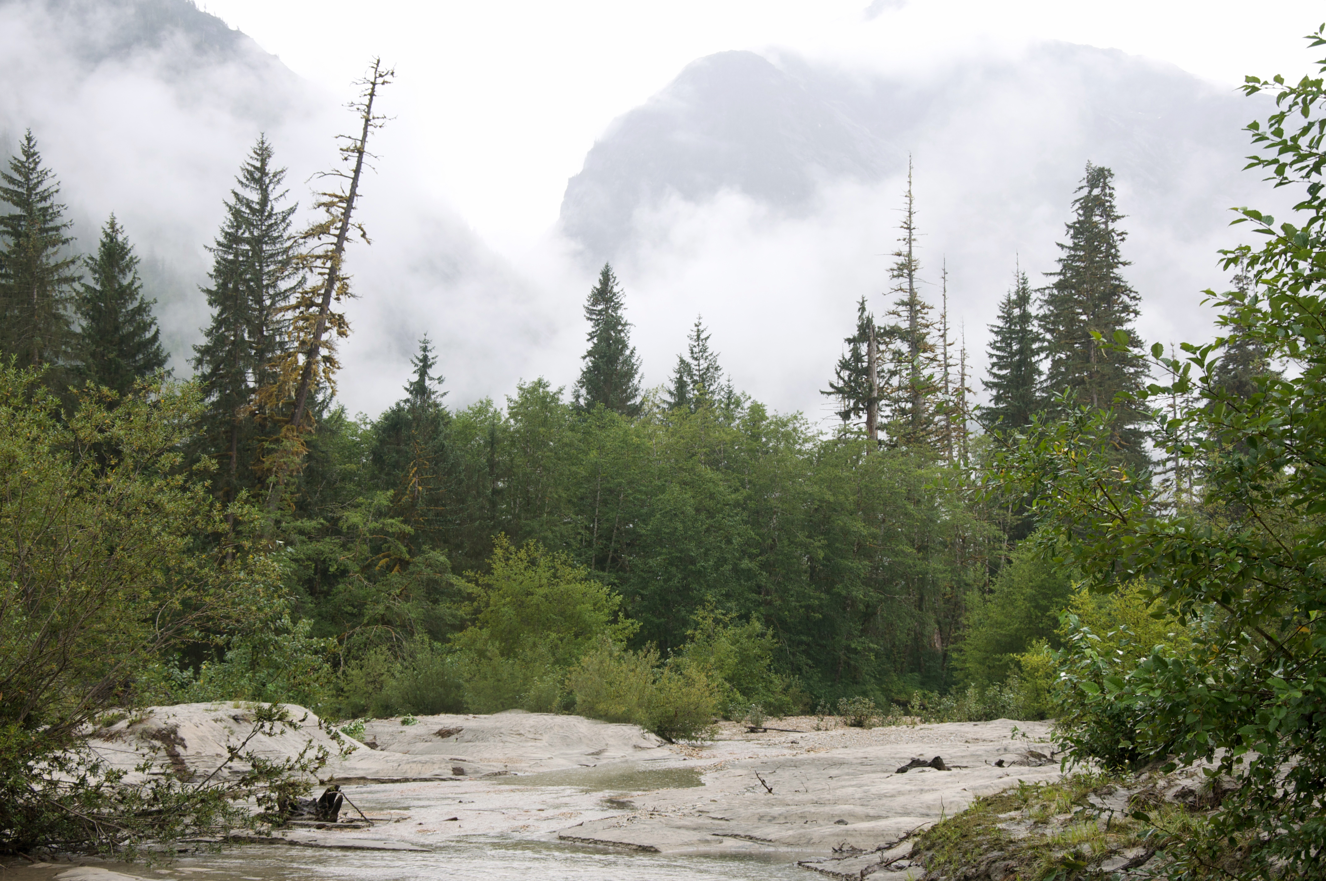 Temperate rainforest with Picea sitchensis (tall trees), Alnus rubra and Salix spp., Kitlope, British Columbia.